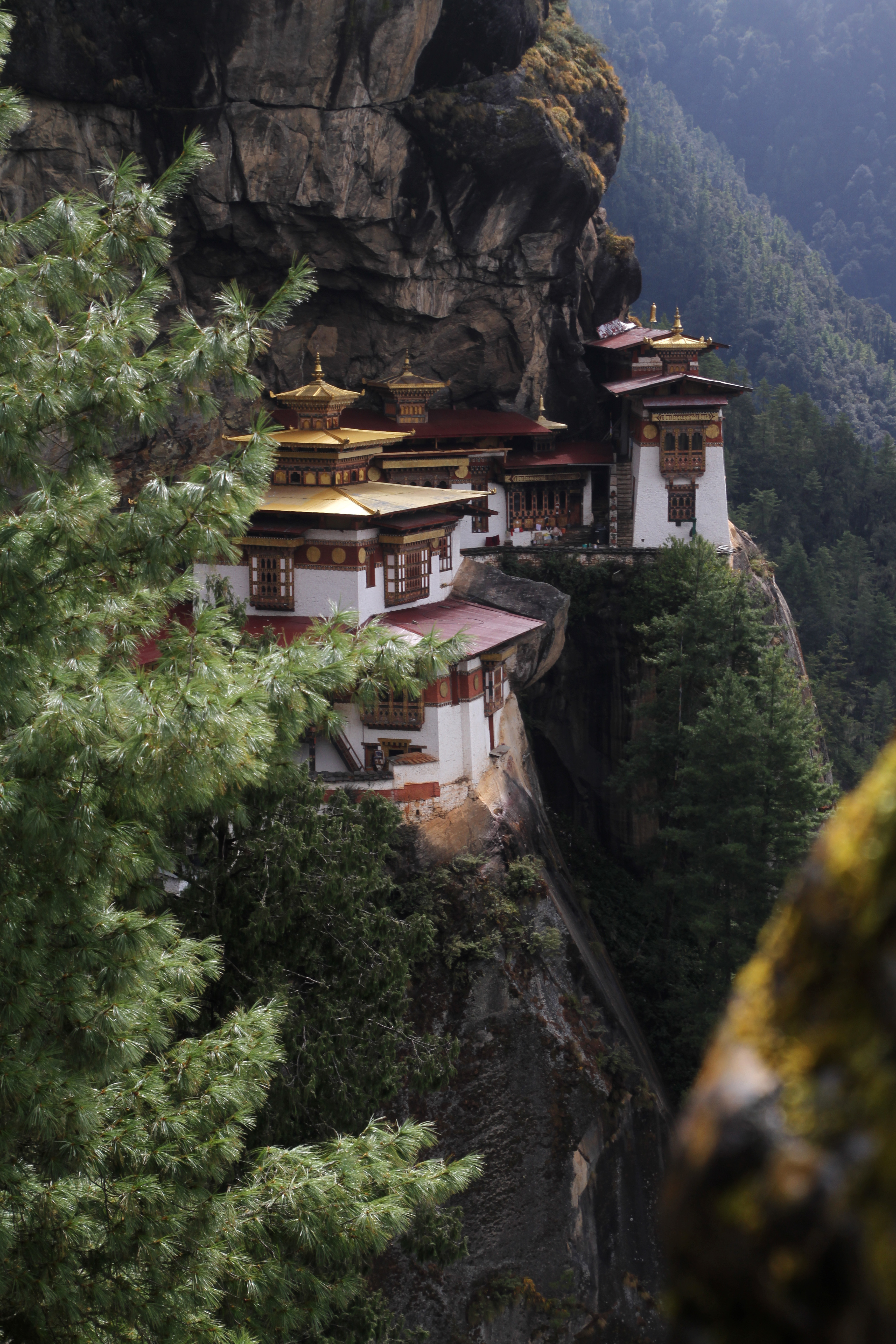 Paro Taktsang - Tigers nest